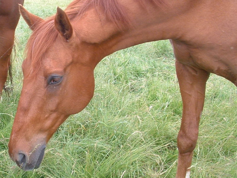 Gelding selle français horse in his field, Seine-et-Marne, France